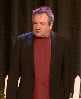 Ken Stott on April 20, 2014 at the Hobbitcon II convention in Bonn, Germany